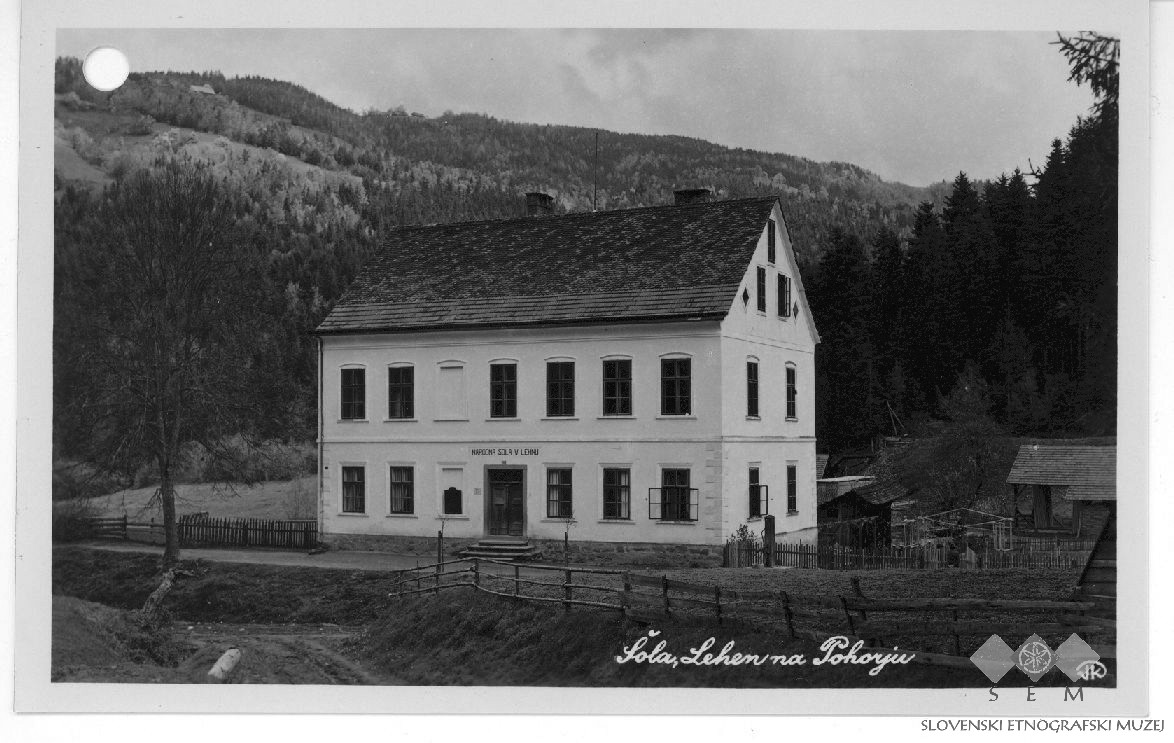 Postcard of Lehen na Pohorju